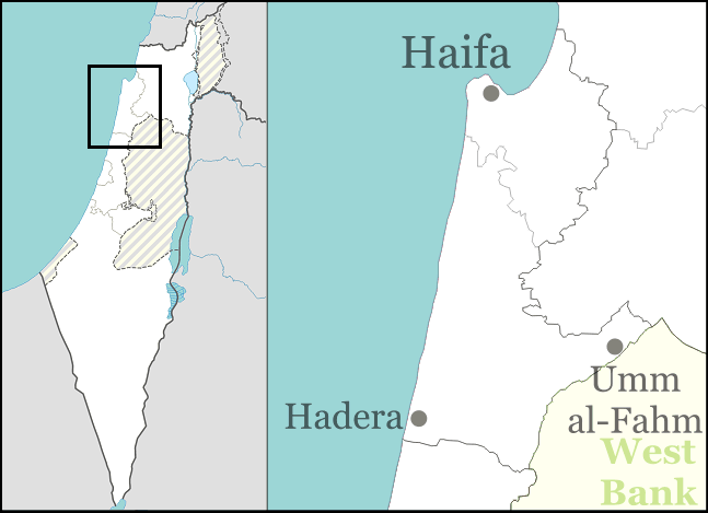 Pushpin (location) map for Haifa District of Israel.